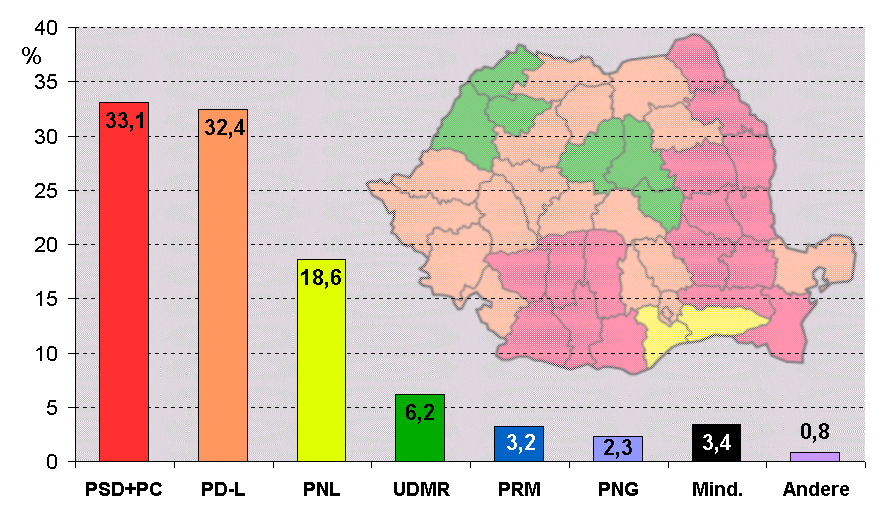 Results of parliamentary elections in Romania 2008-11-30 Votes Chamber of Deputies